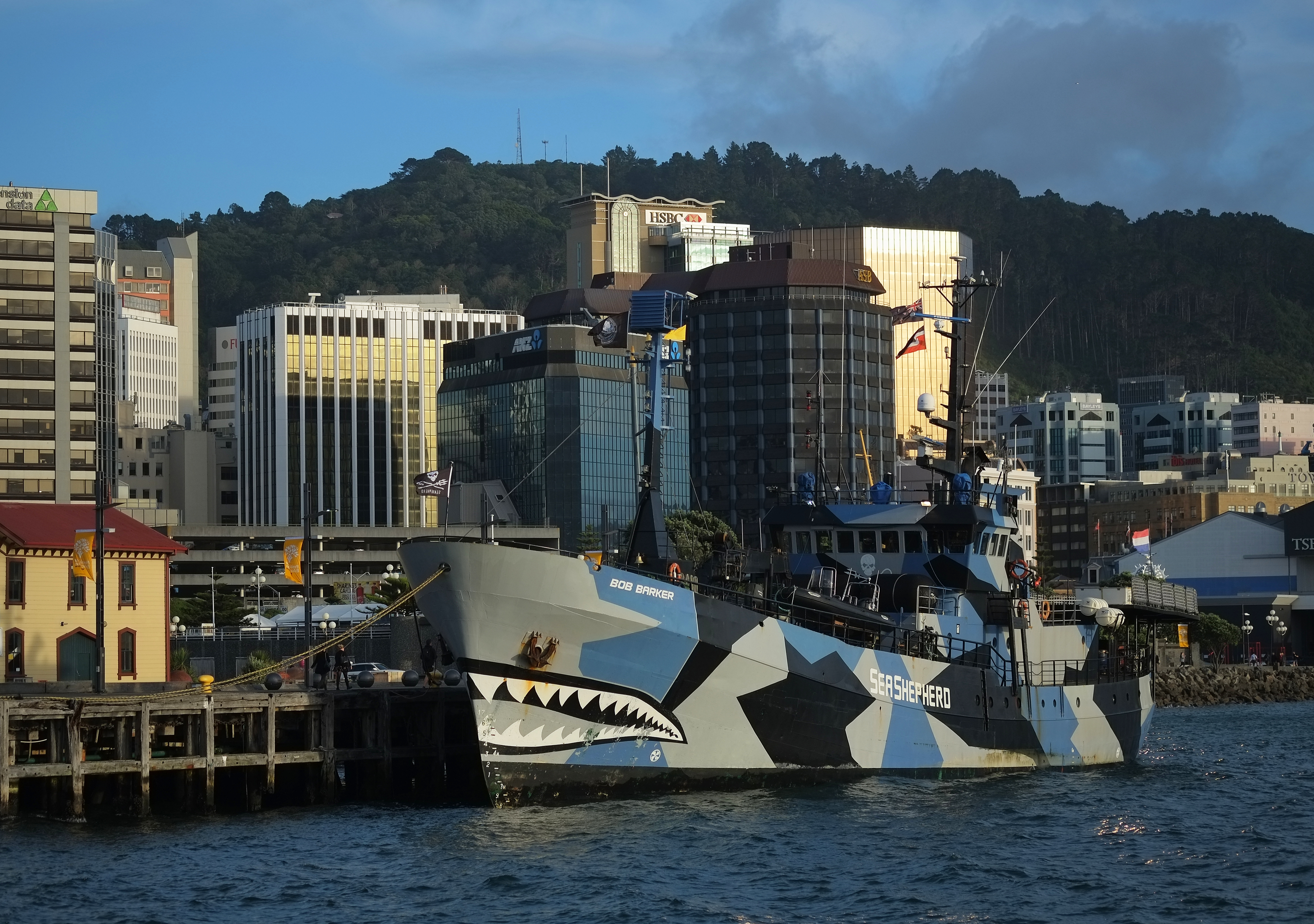 Sea Shepherd's MY Bob Barker berthed in Wellington in dazzle camouflage in March 2014 after battling Japanese whalers for three months in Antarctic seas.[1]